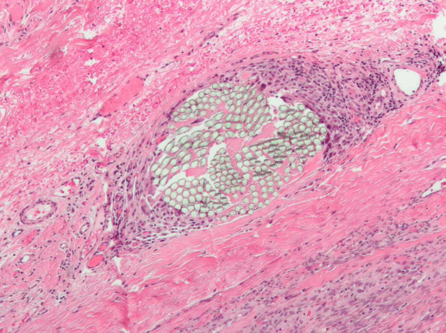 Micrograph of a suture with a foreign body giant cell reaction. H&E stain.